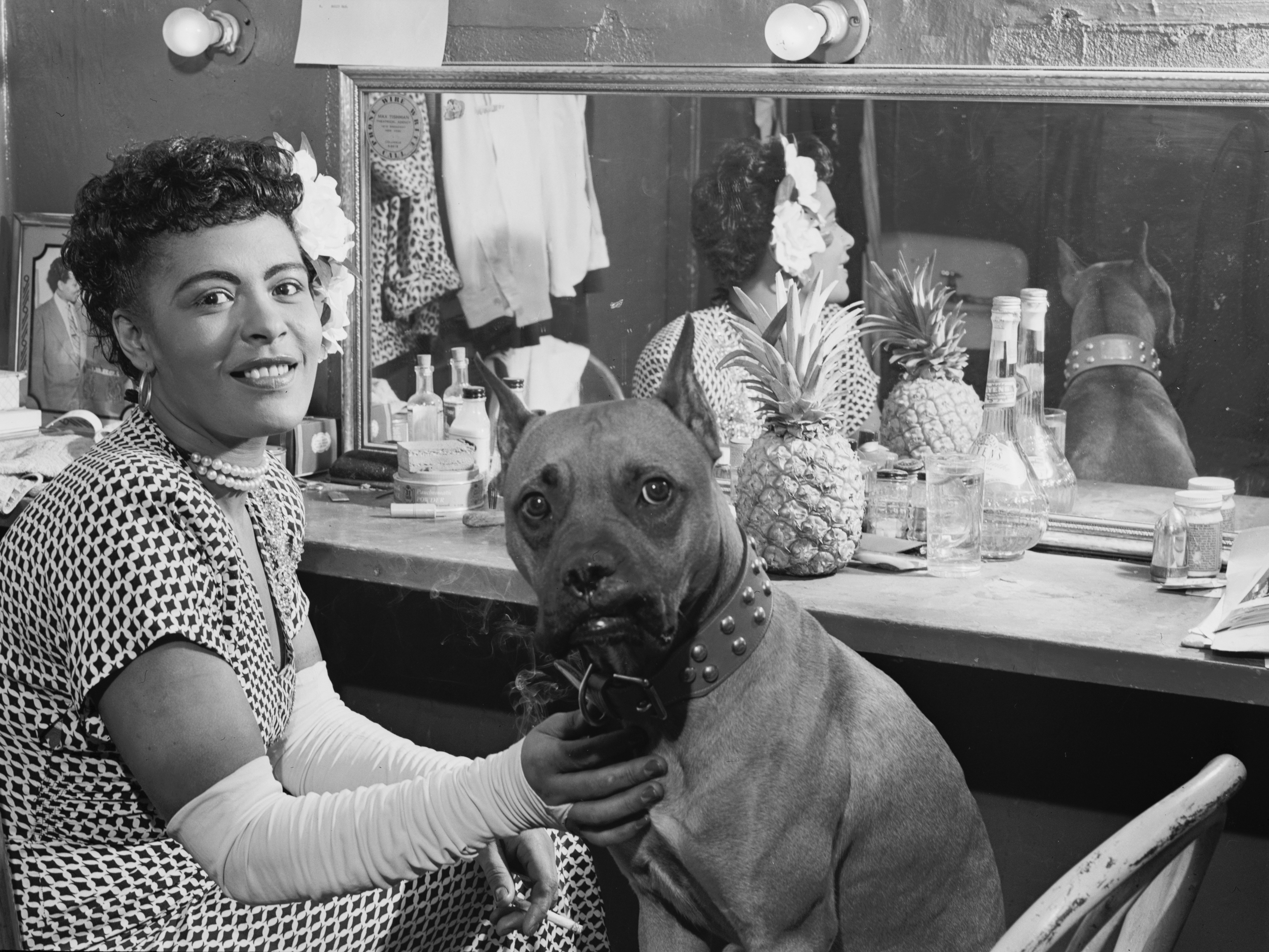 Billie Holiday and her dog Mister Dog, backstage dressing room, probably at the Downbeat, NYC